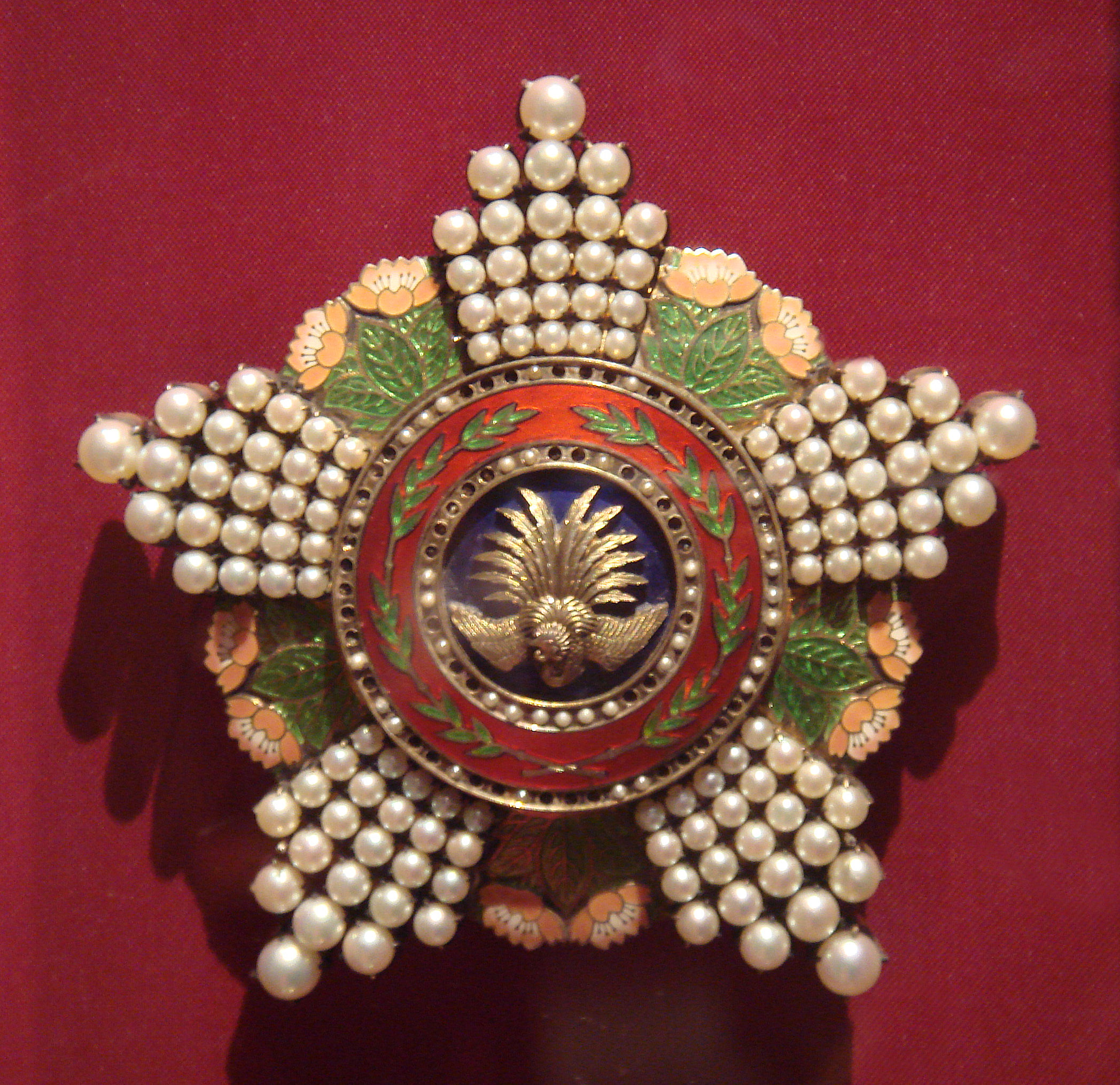 Order_of_the_Precious_Crown_end_of_19th_century_Japan